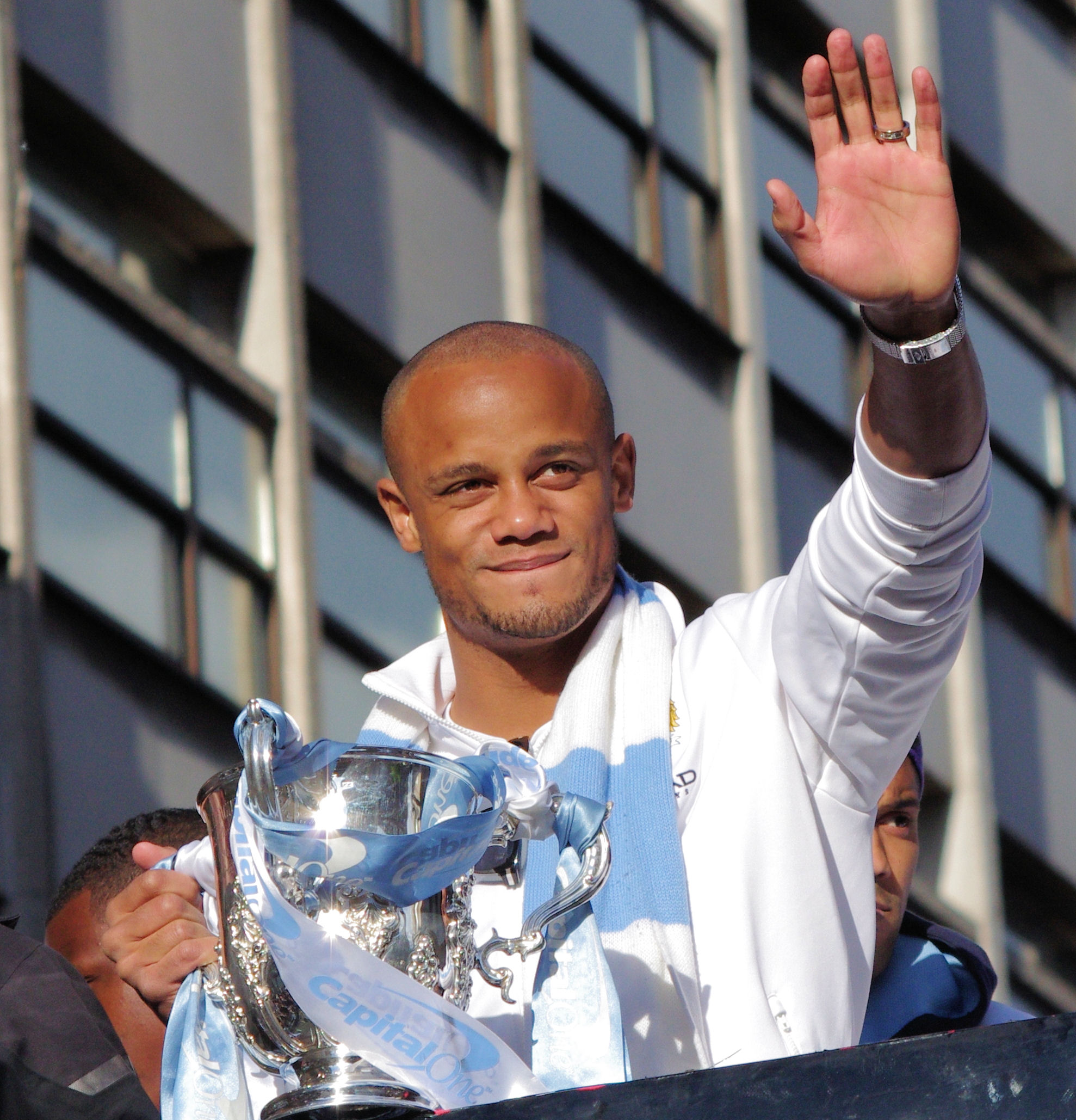 Vincent Kompany at Manchester City's Champions Parade 2014